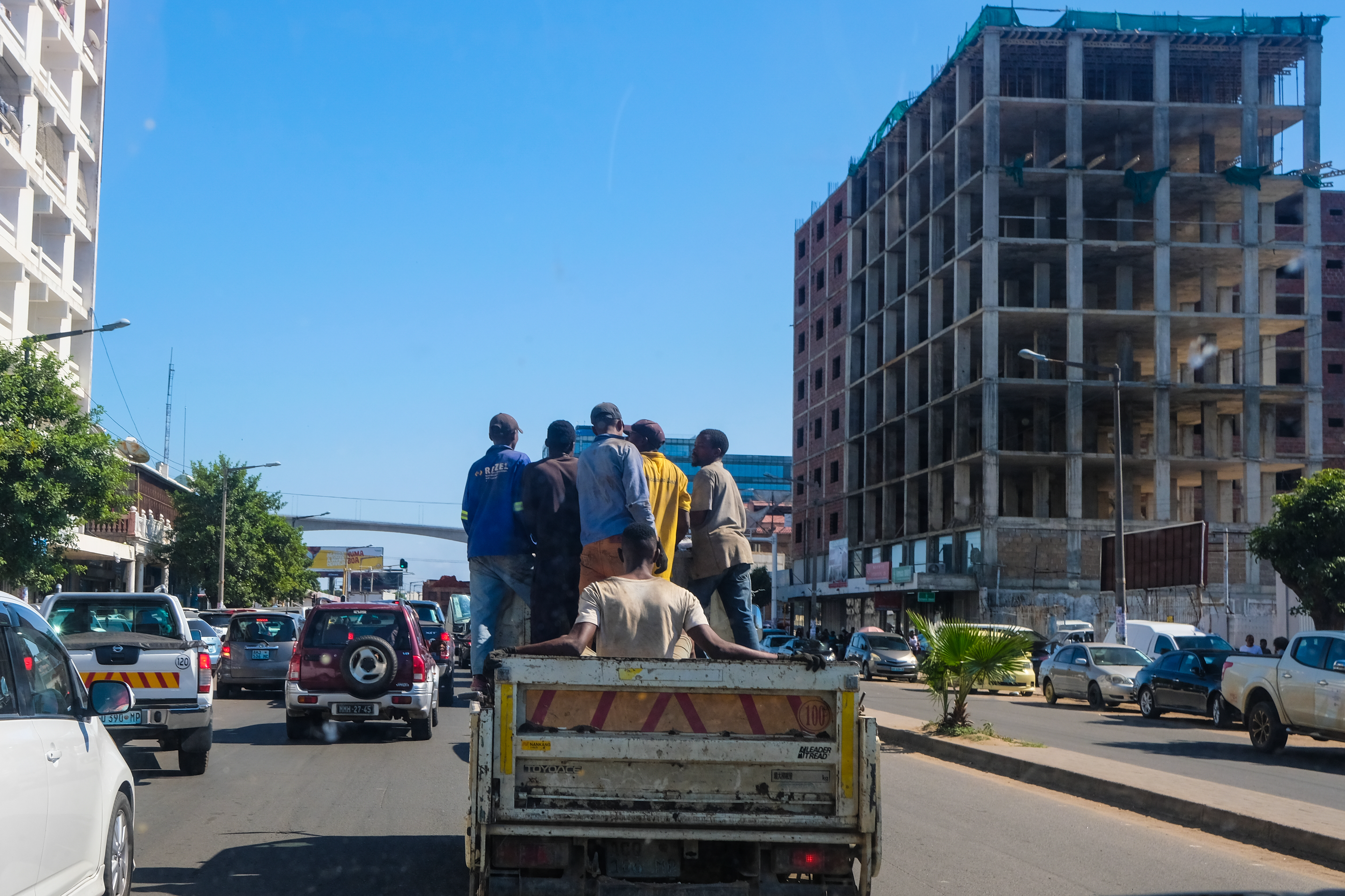 This is an image with the theme "Africa on the Move or Transport" from: Mozambique